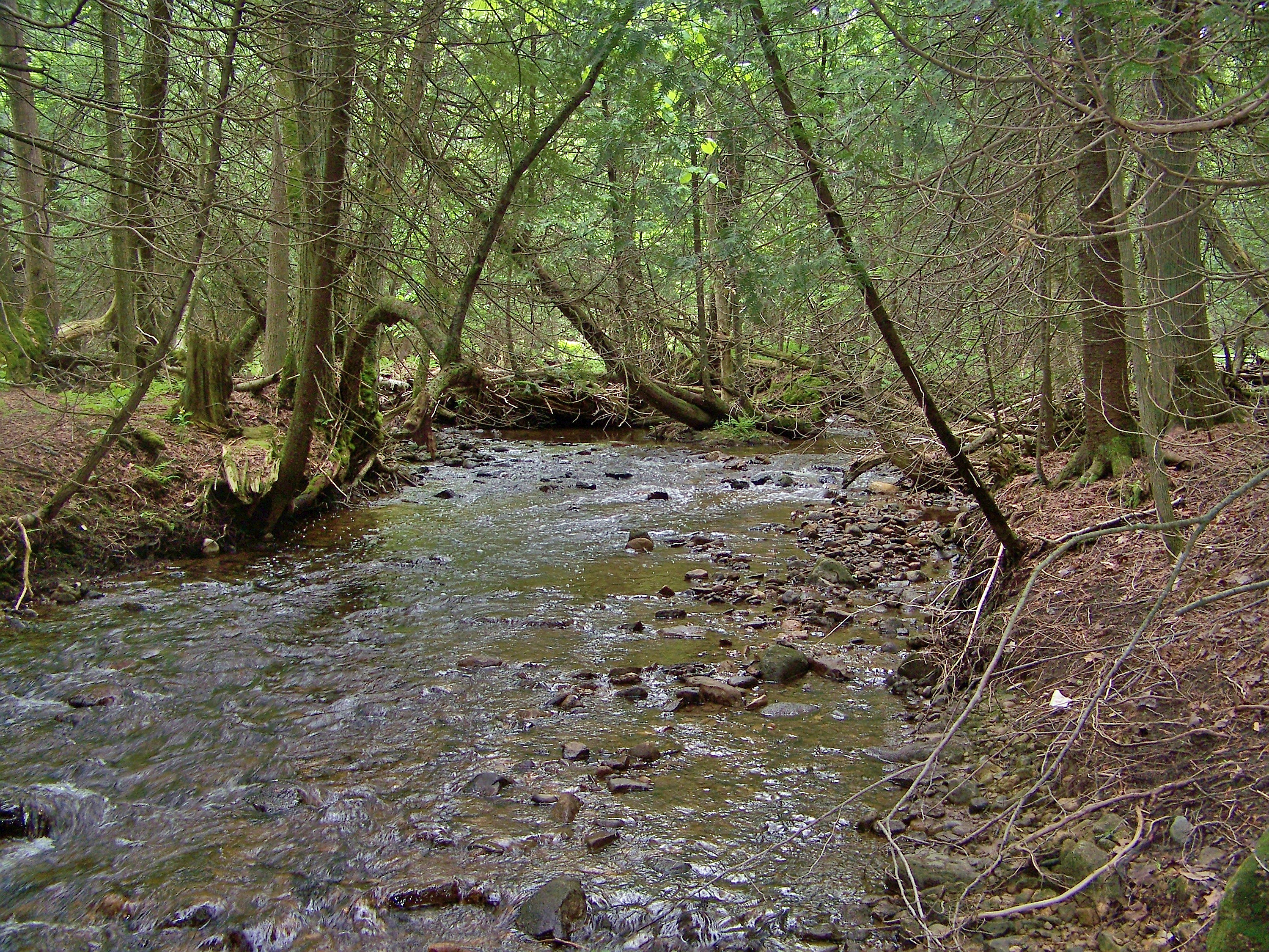 A Nottawasaga River tributary within the Hockley Valley Provincial Nature Reserve. This photo was taken in a protected area in Canada, Wikidata item Hockley Valley Provincial Nature Reserve (Q1708458)